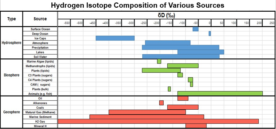 The references for the deltaD values are embedded in the main text.